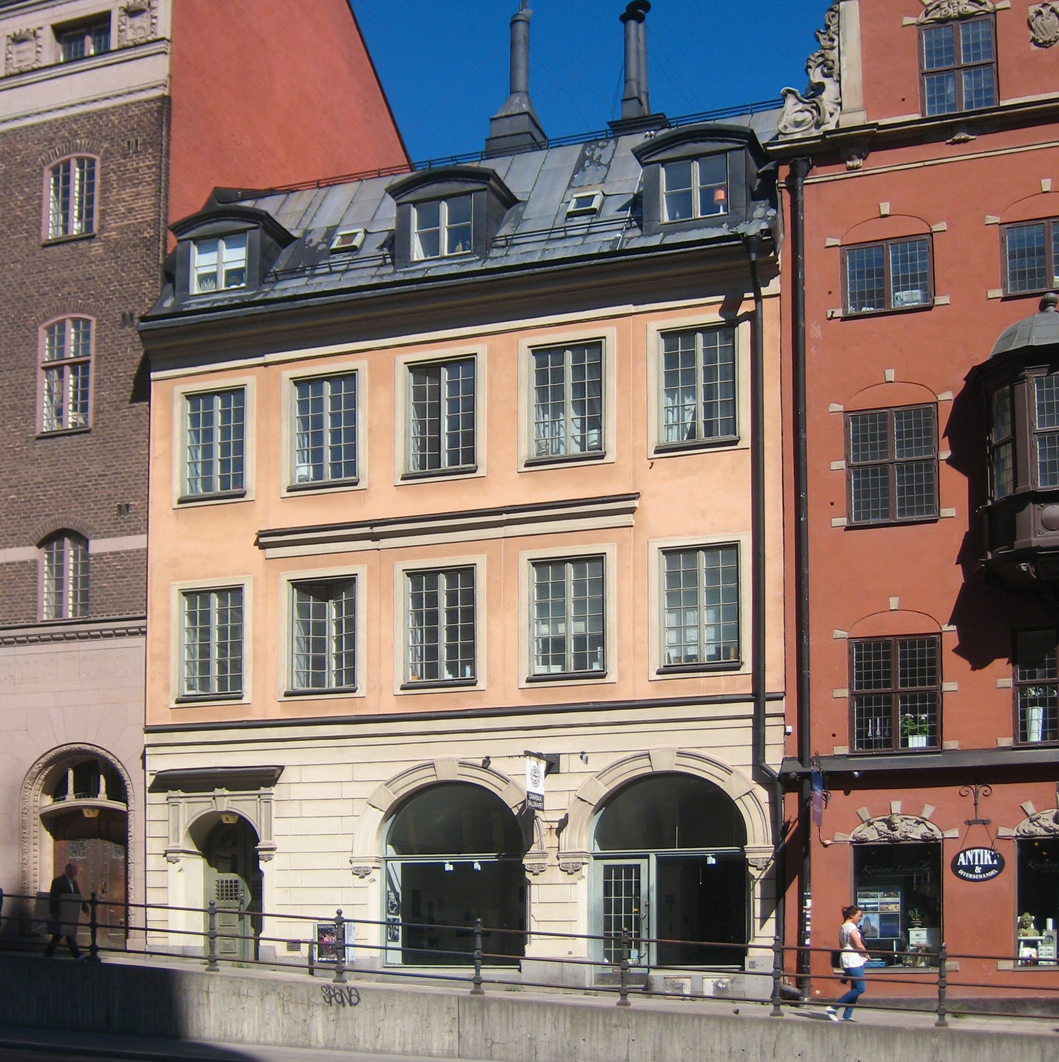 Hornsgatan 6.